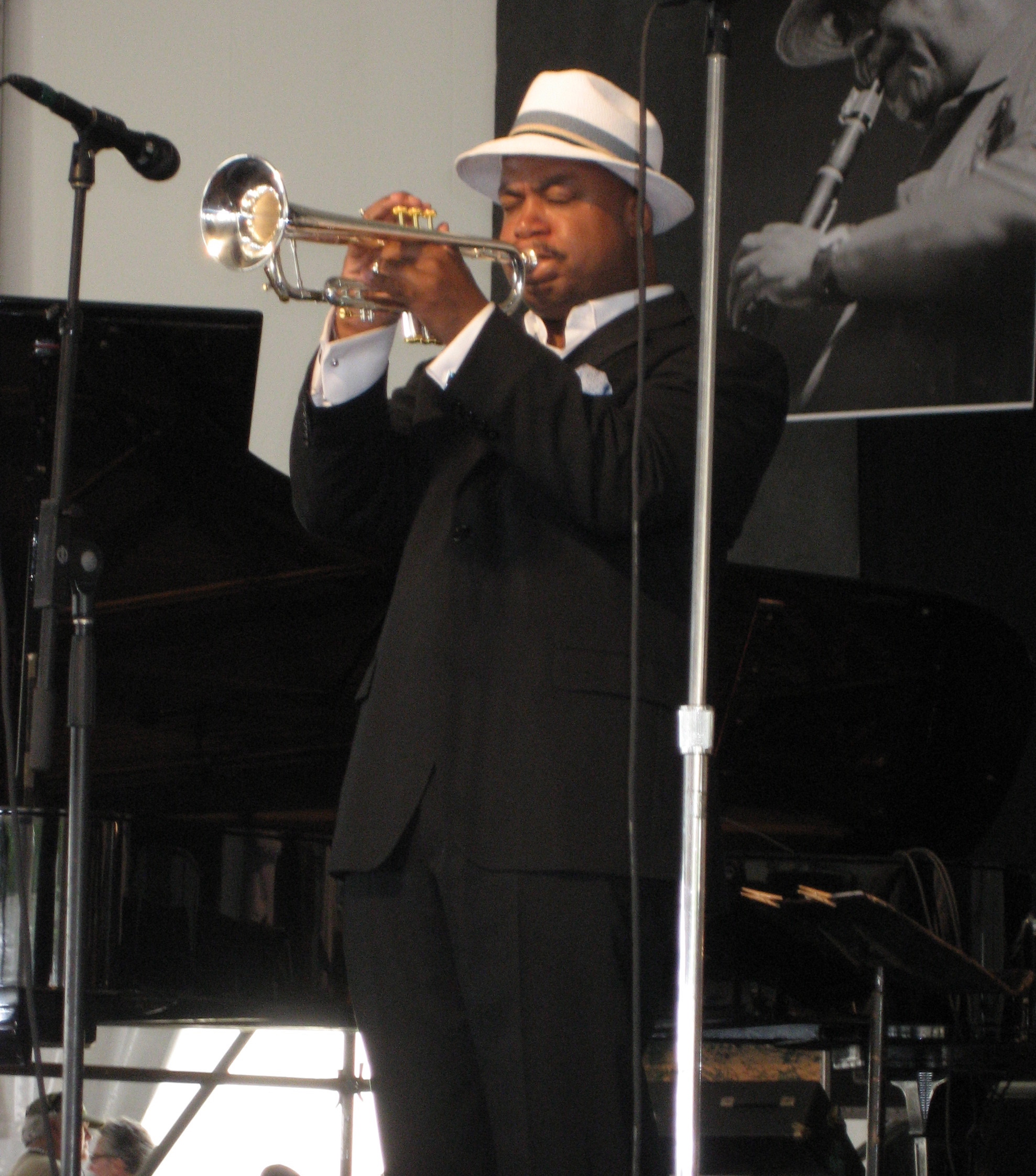 Jazz trumpeter Nicholas Payton, New Orleans Jazz & Heritage Festival 2007